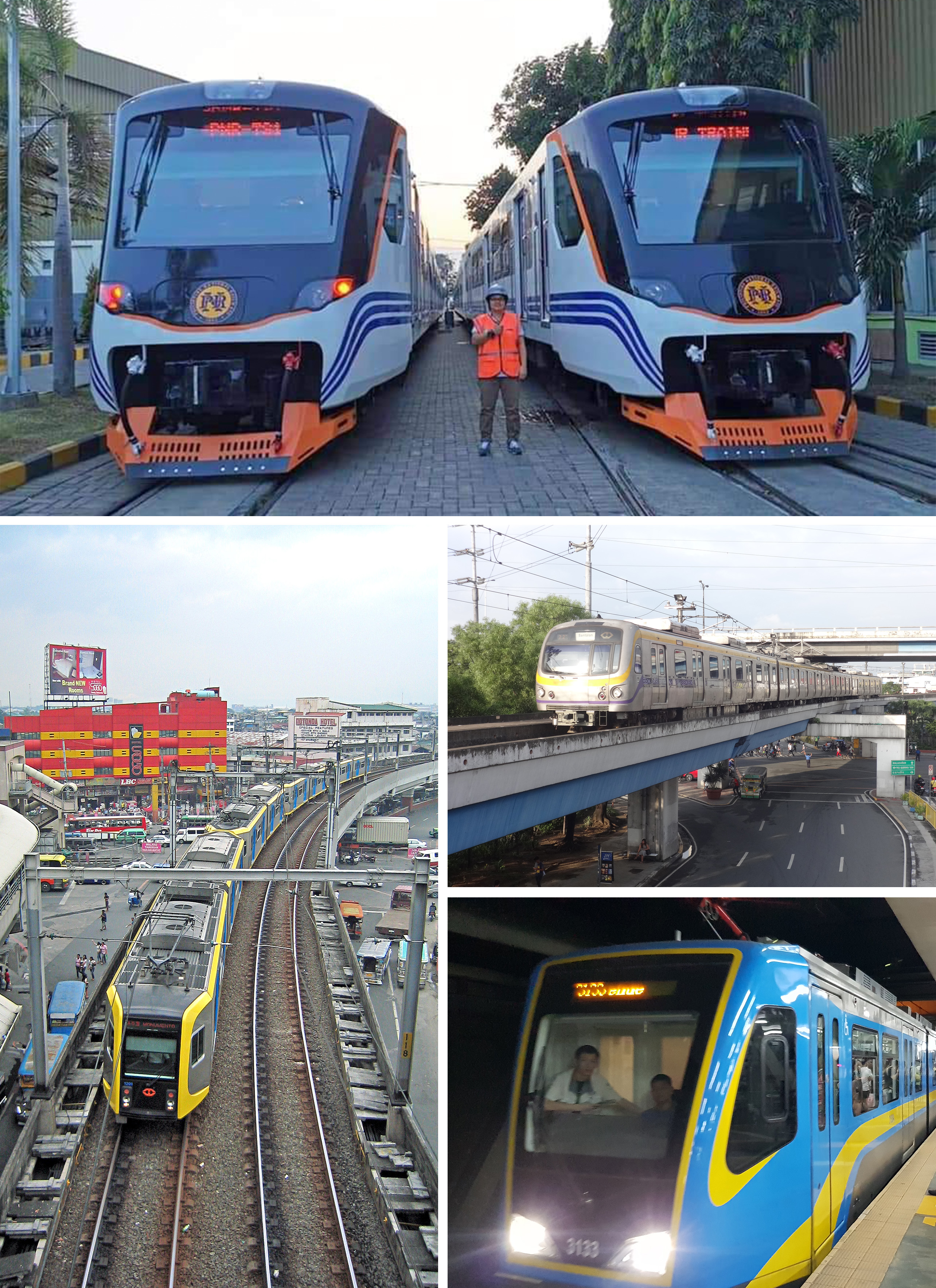 A montage of current railway systems in the Philippines.